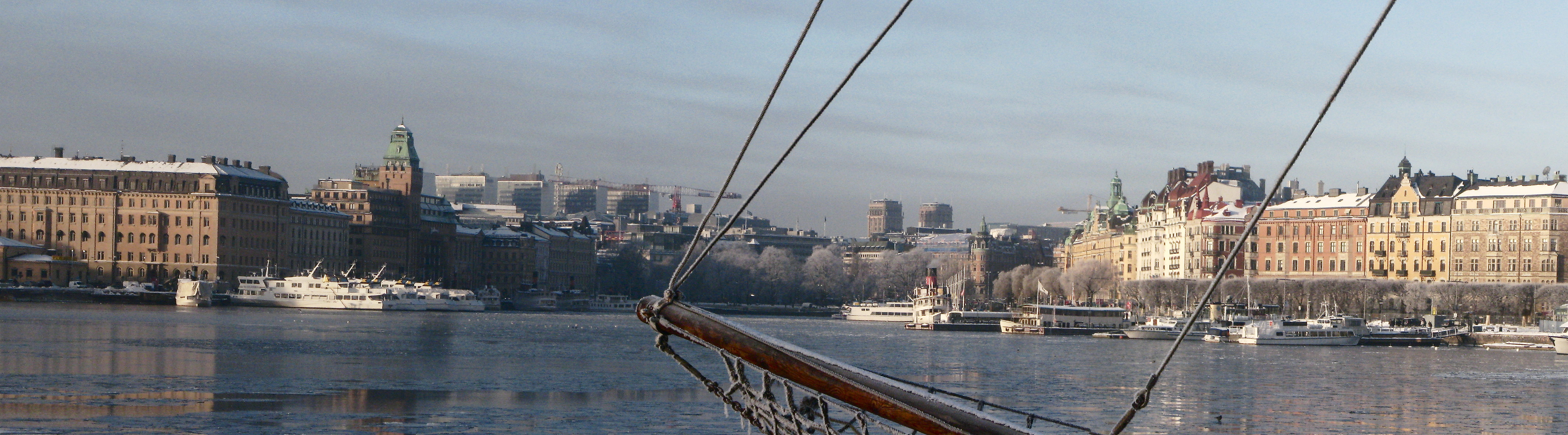 Nybroviken sedd från Galärvarvet.